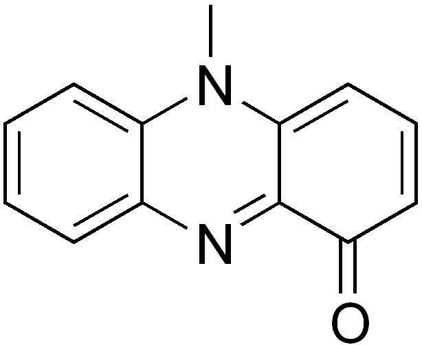 chemical structure of pyocyanin (pyocyanine)